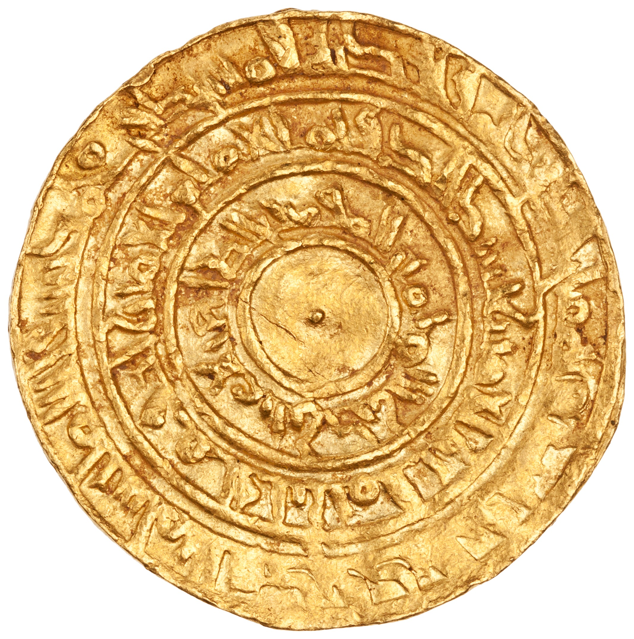 The reverse of a gold dinar minted in Aleppo in 1028/29 under the authority of Salih ibn Mirdas.